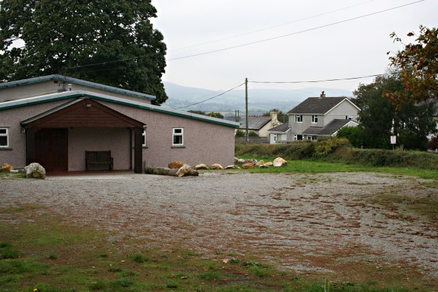 Golberdon Village Hall Actually this is the South Hill Parish Hall but it is in Golberdon Village.